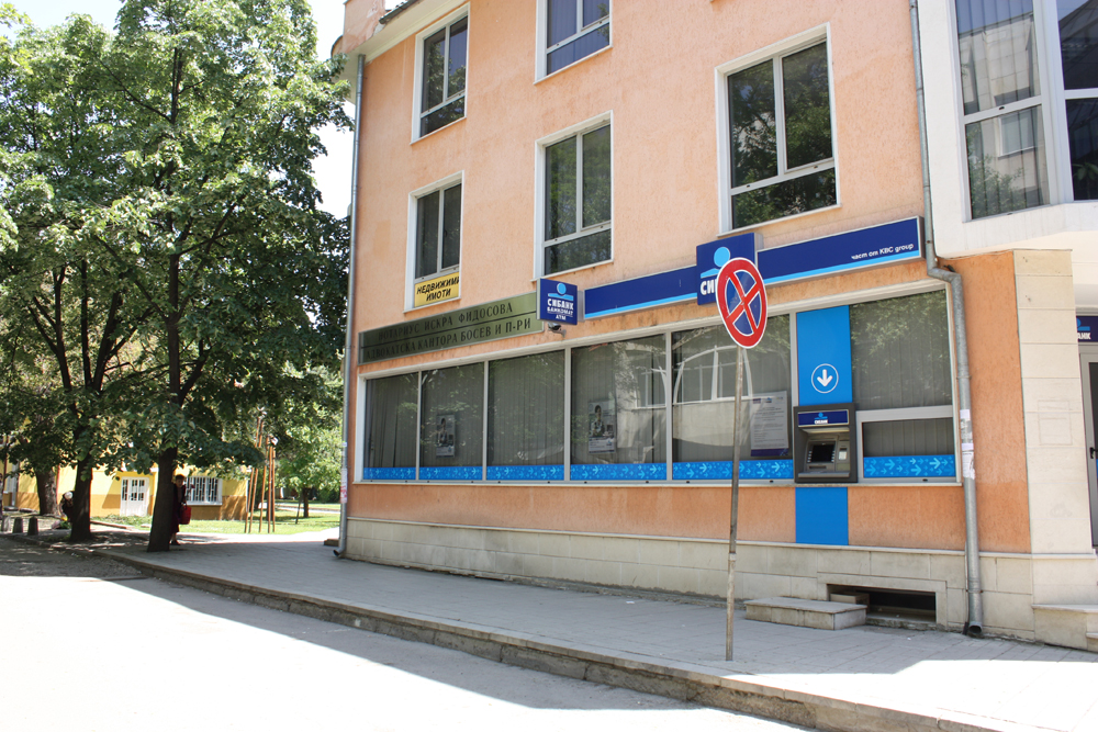 MP Iskra Fidosova Notary office in Montana